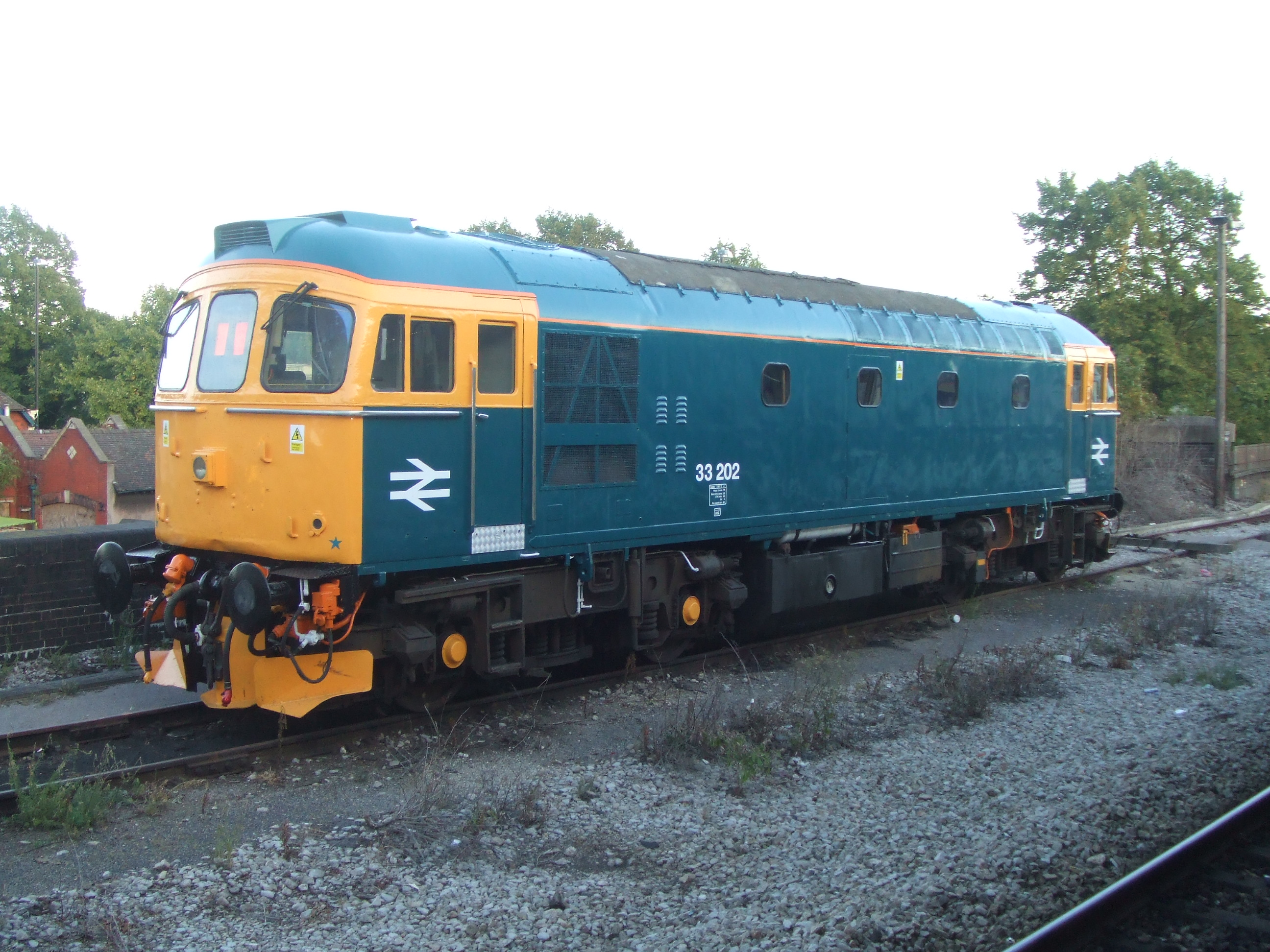 BRCW Class 33/2 (with narrow body for Hastings line) 1,550 hp Bo-Bo No.33 202 (ex-D6587) (ex-Burma Star; Meteor; later Dennis G Robinson) of recently defunct Fragonsett and freshly painted in BR Rail blue for it's new owner, Cotswold Rail, at Bristol Temple Meads 08/07.